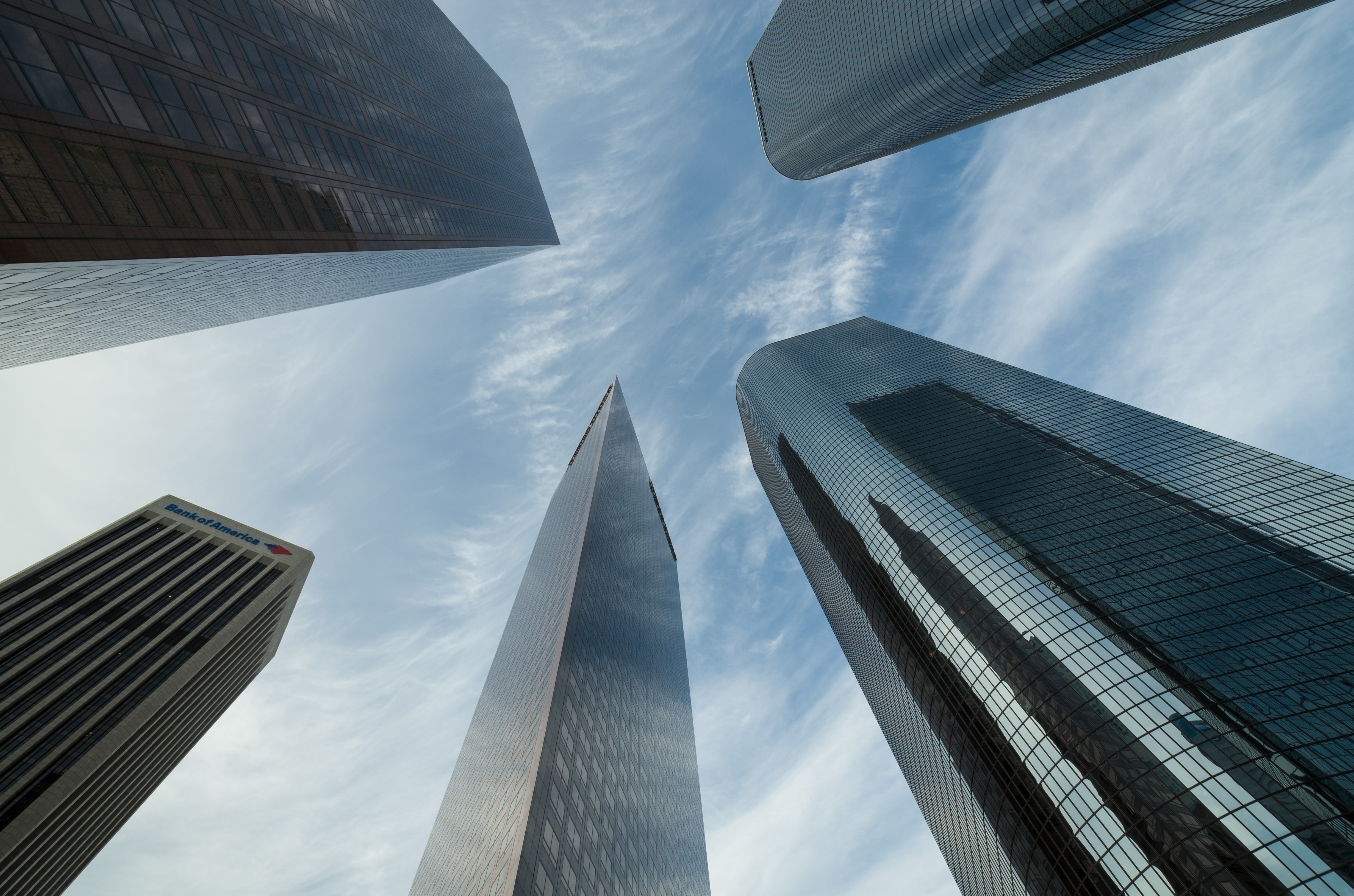 Skyscrapers on Bunker Hill, in Downtown Los Angeles. Photographed from the ground plane.